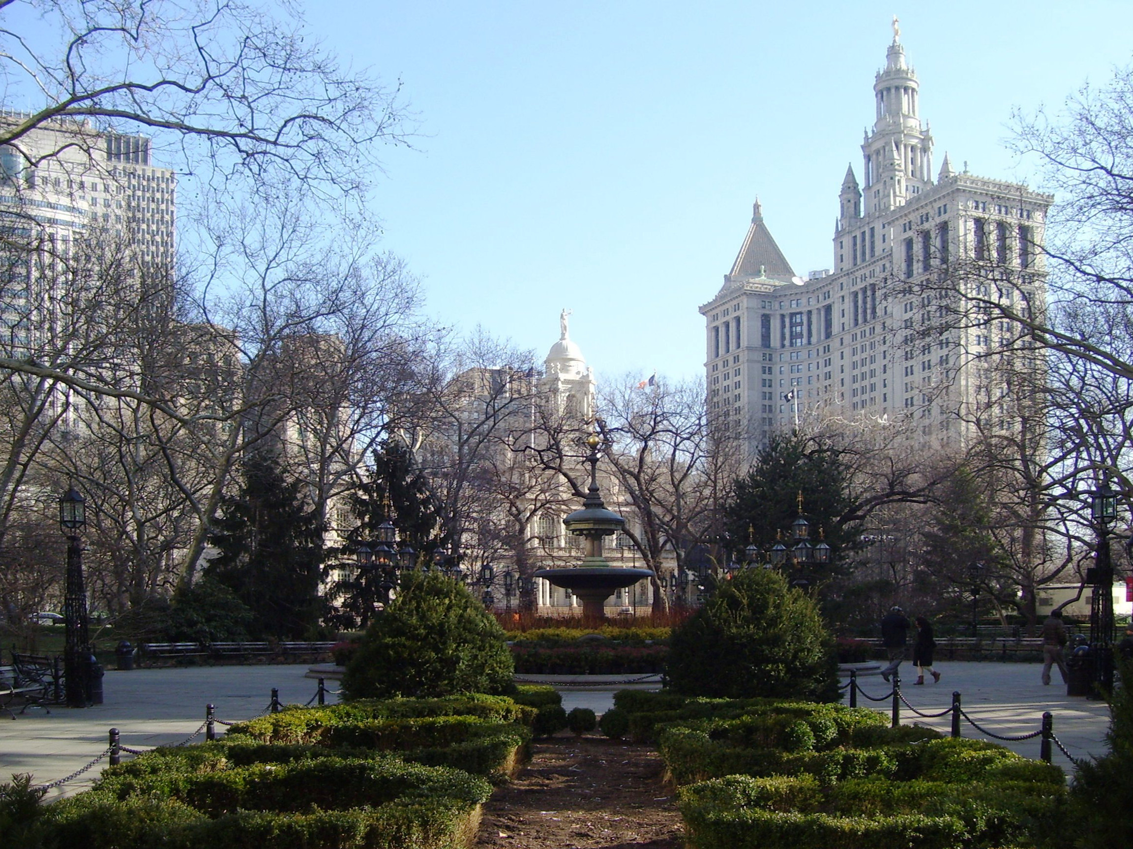 The fountain in City Hall Park in winter, seen from the south. Behind is City Hall (center) the Manhattan Municipal Building (right).